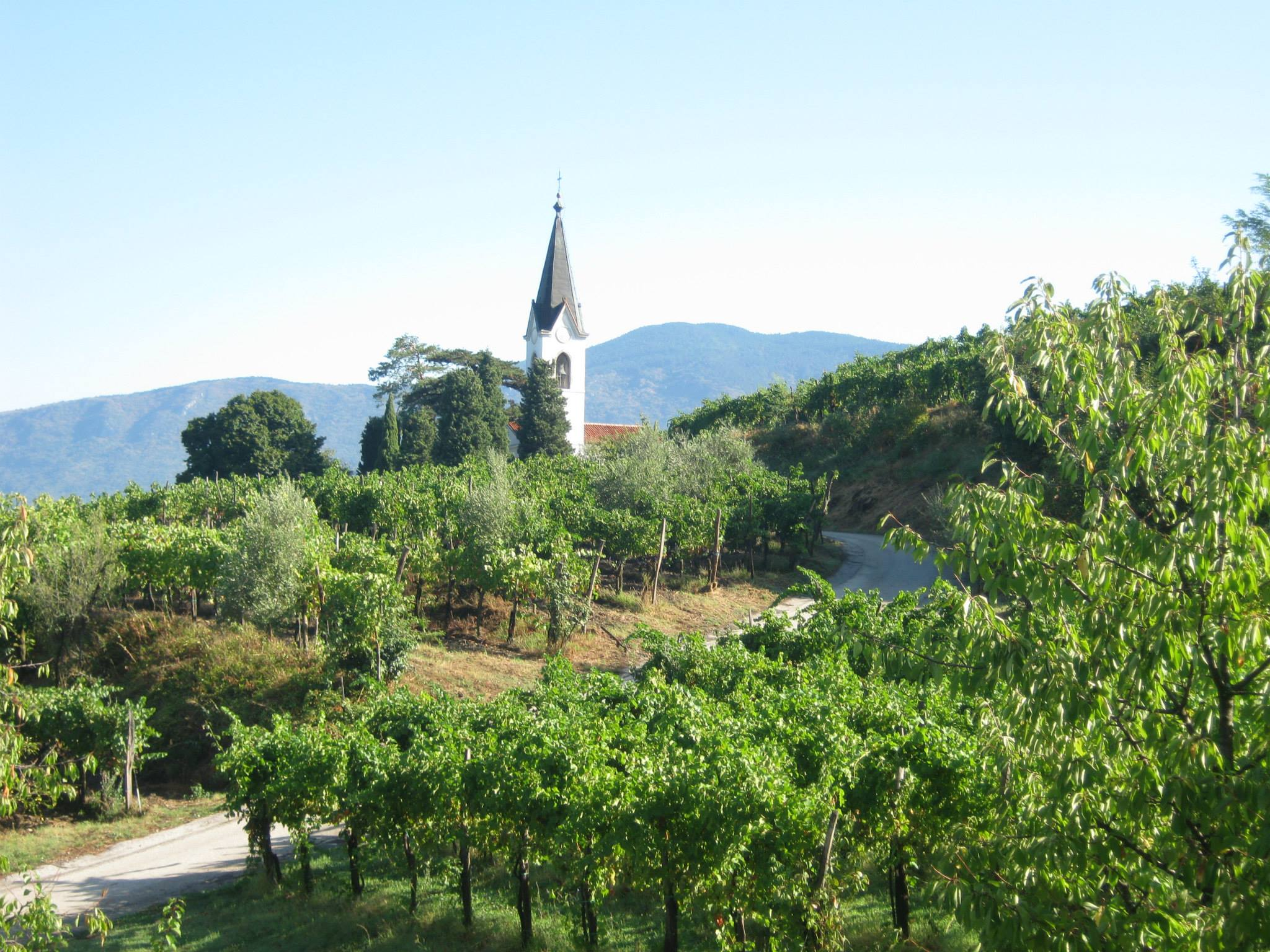 Sv. Lovrenc